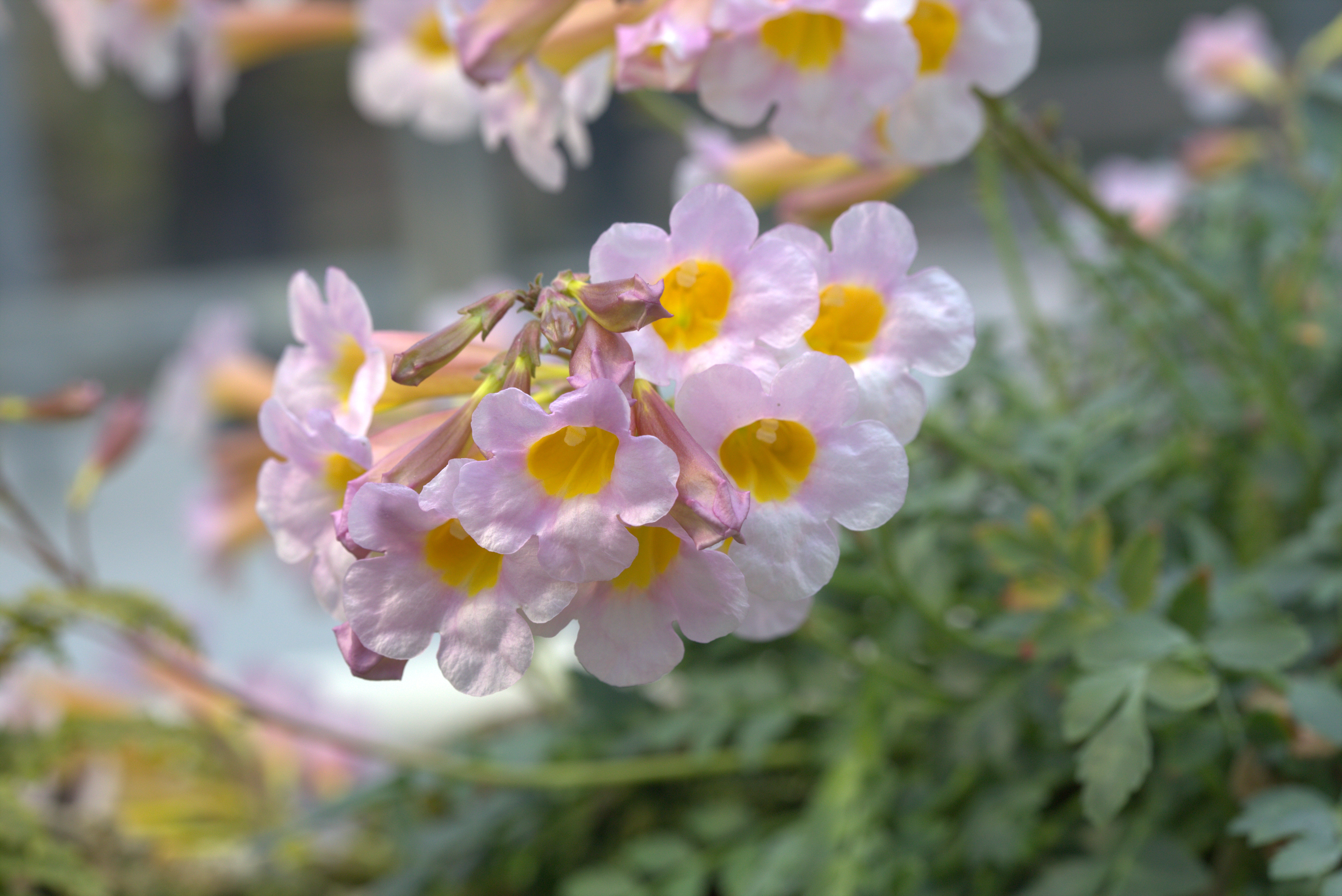 Incarvillea emodi at Gothenburg Botanical Garden in 2015. Plant id: 1970-0115 s U -- Wendelbo